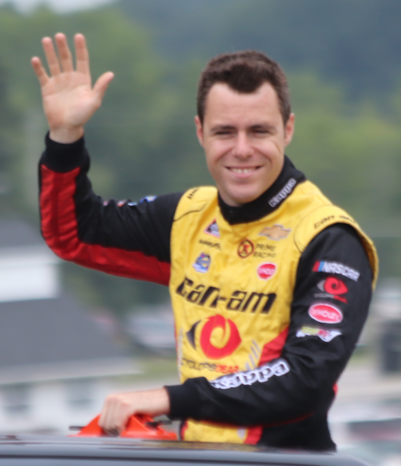 NASCAR Xfinity Series driver Alex Labbe waves to fans at the 2018 Road America race.